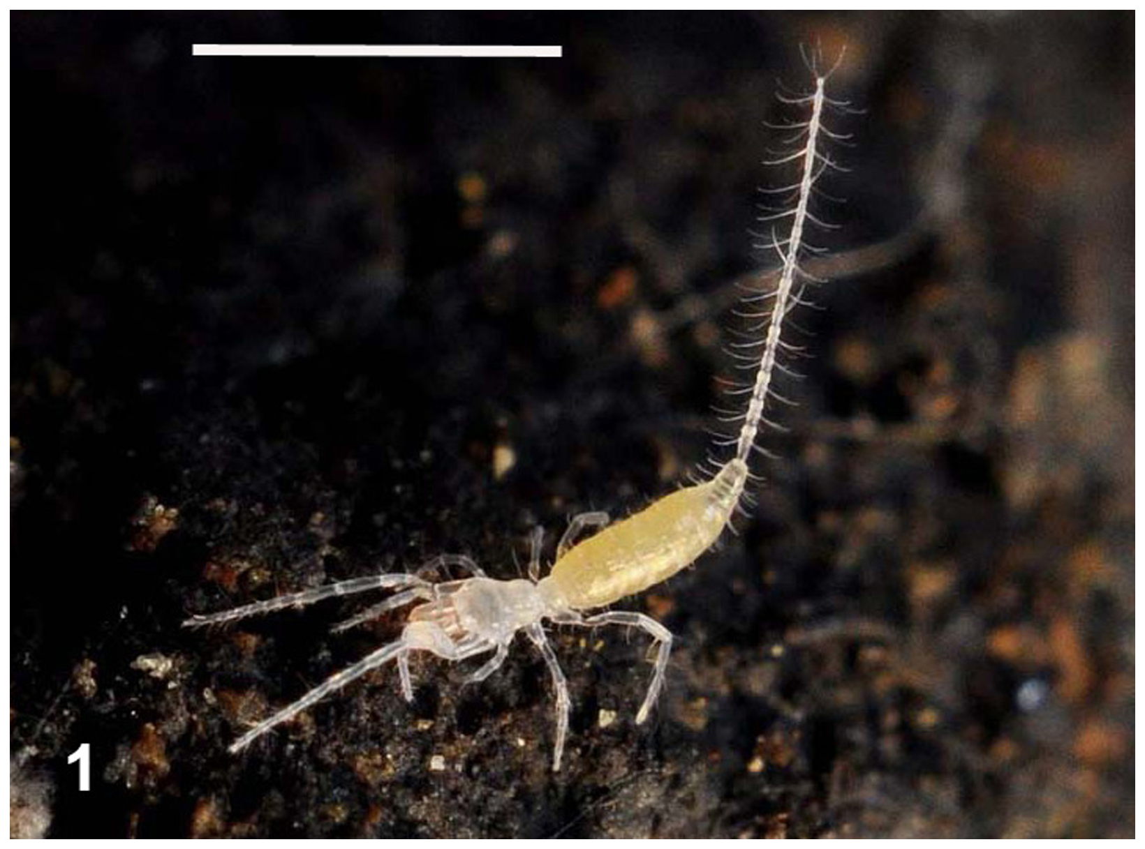 Live Eukoenenia spelaea in its cave habitat. Scale bar = 1 mm.